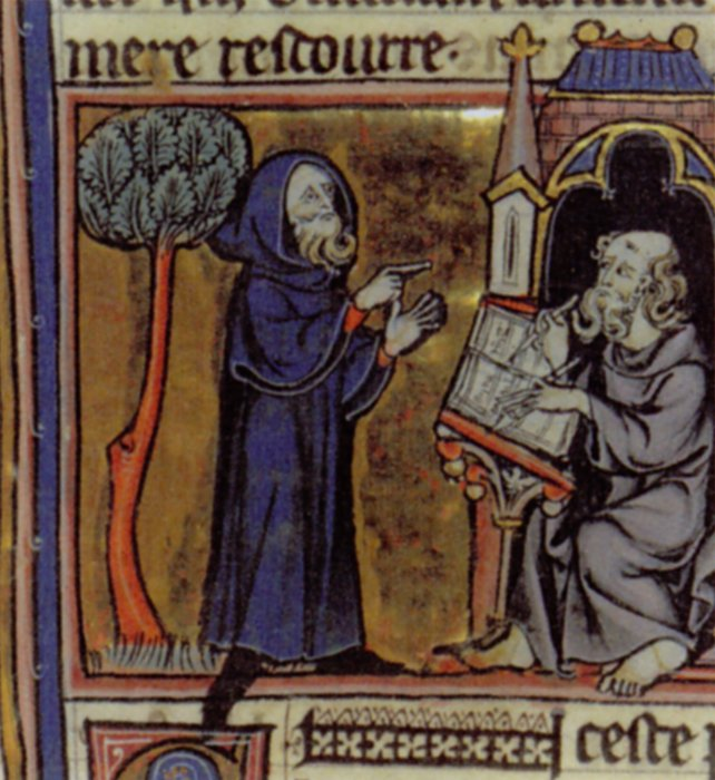 Merlin dictating his prophecies to his scribe, Blaise; French 13th century minature from Robert de Boron's Merlin en prose (written ca 1200). (Manuscript illustration, c.1300.)[1]